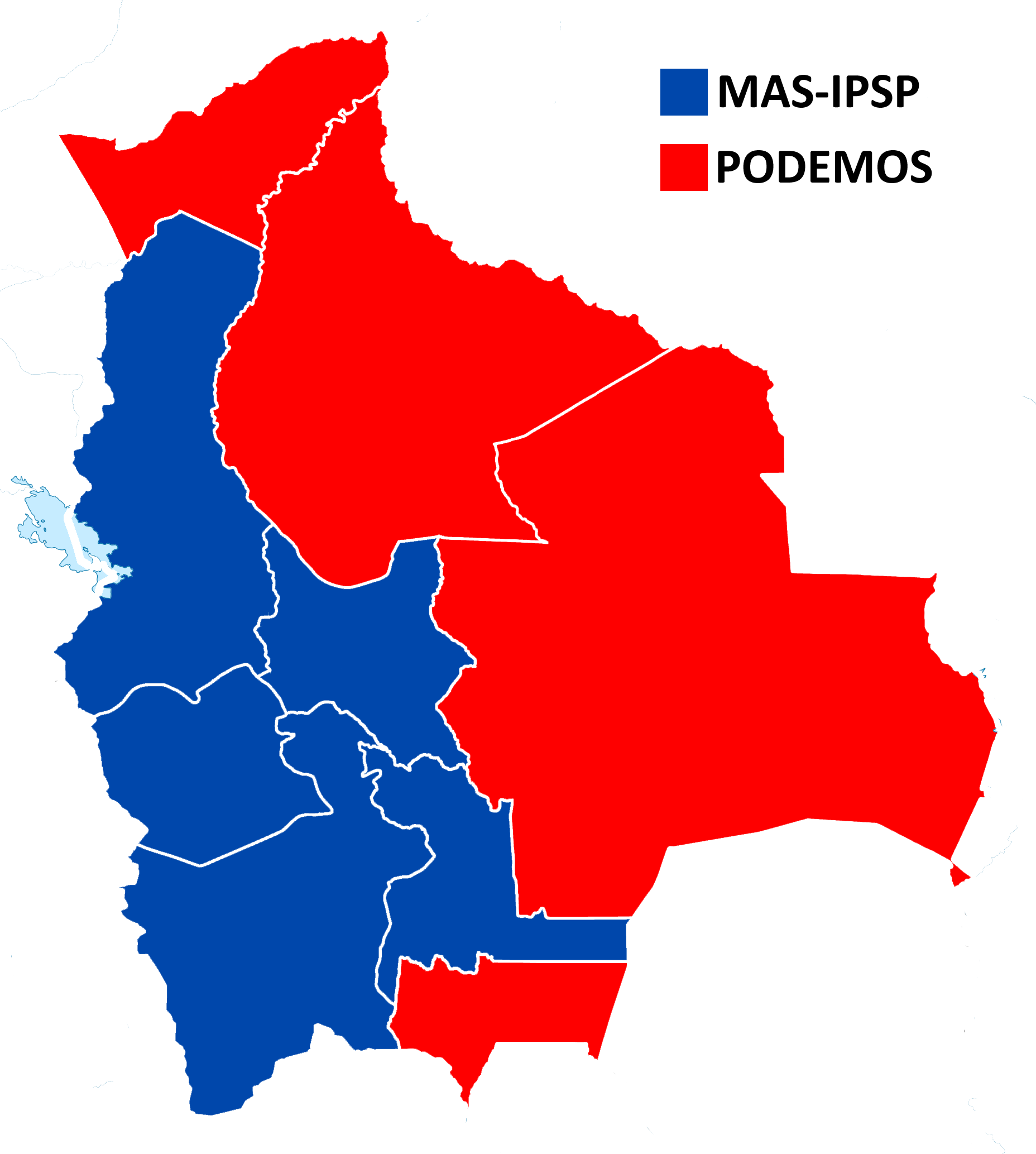 Results of the 2005 Bolivian lection by department. In Blue, departments where Evo Morales won, and in red, departments where Jorge Quiroga won.